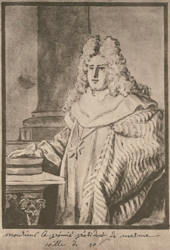 Portrait of Jean-Antoine de mesmes, premier président (aquarell?)